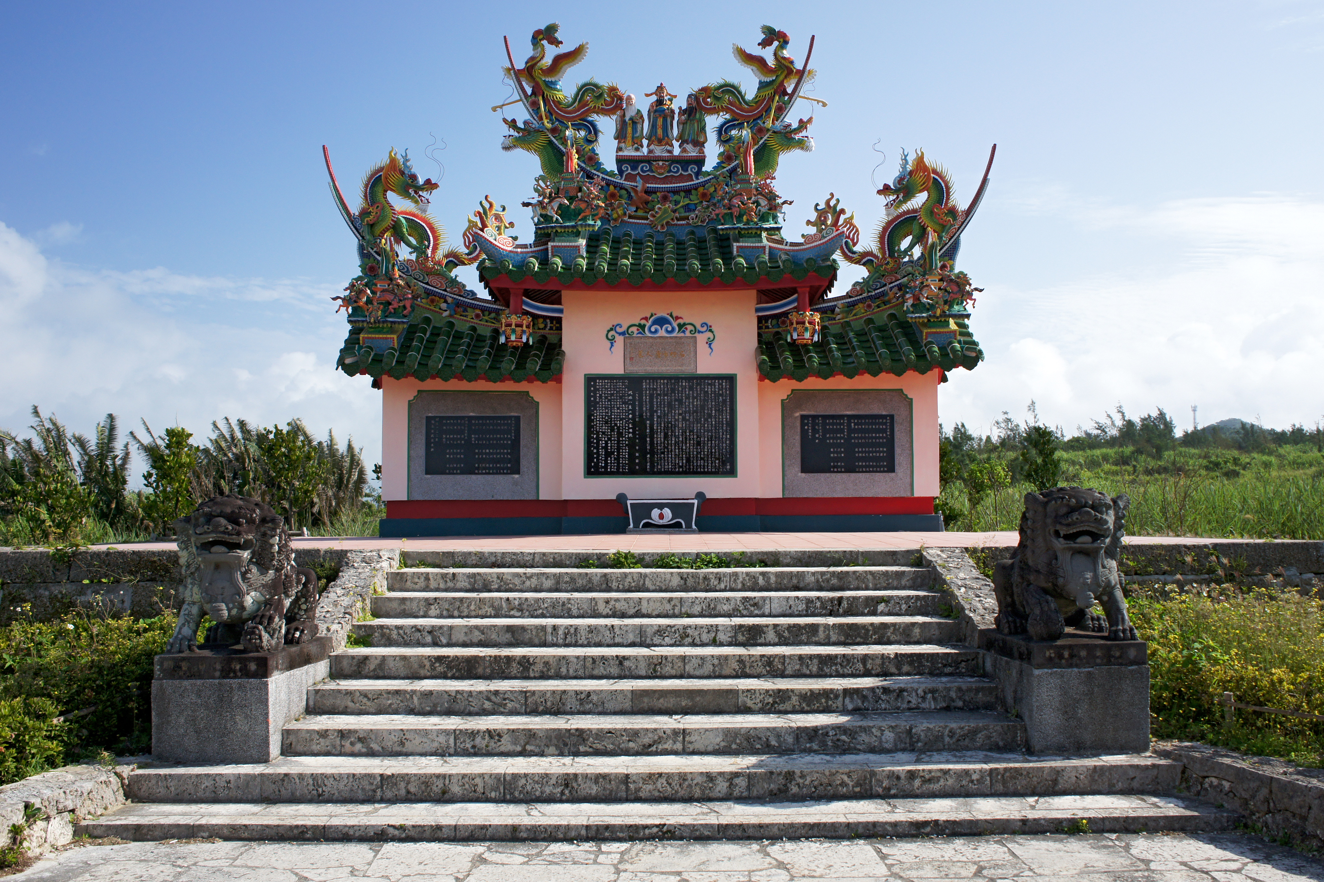 Tojin-baka in Ishigaki Island, Ishigaki City, Okinawa Prefecture, Japan.